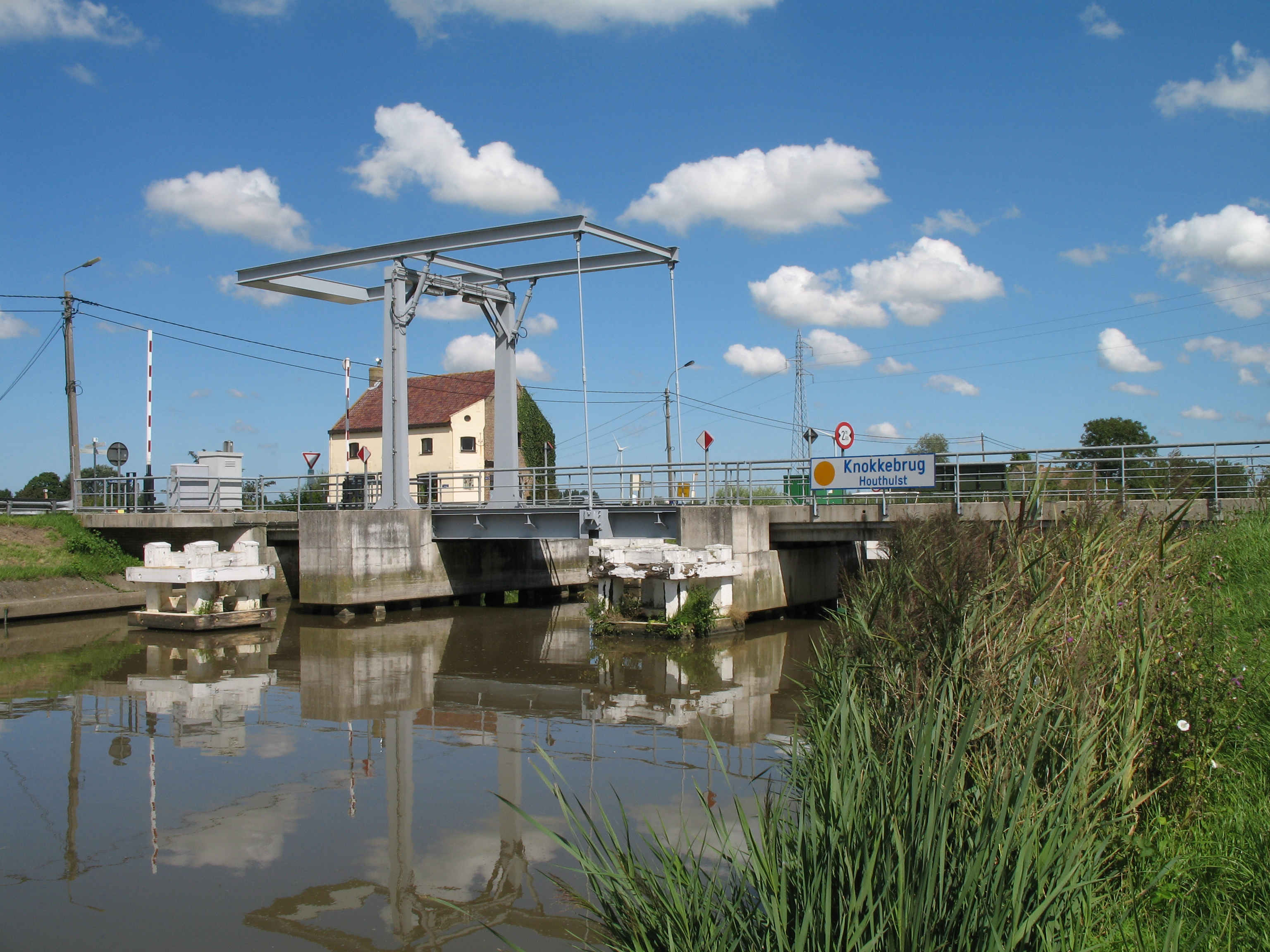 Knokke bridge on the IJzer river at Houthulst (West Flanders, Belgium)